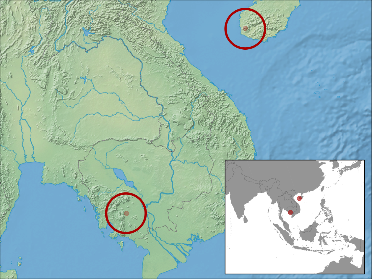 geographic distribution of Murina harrisoni